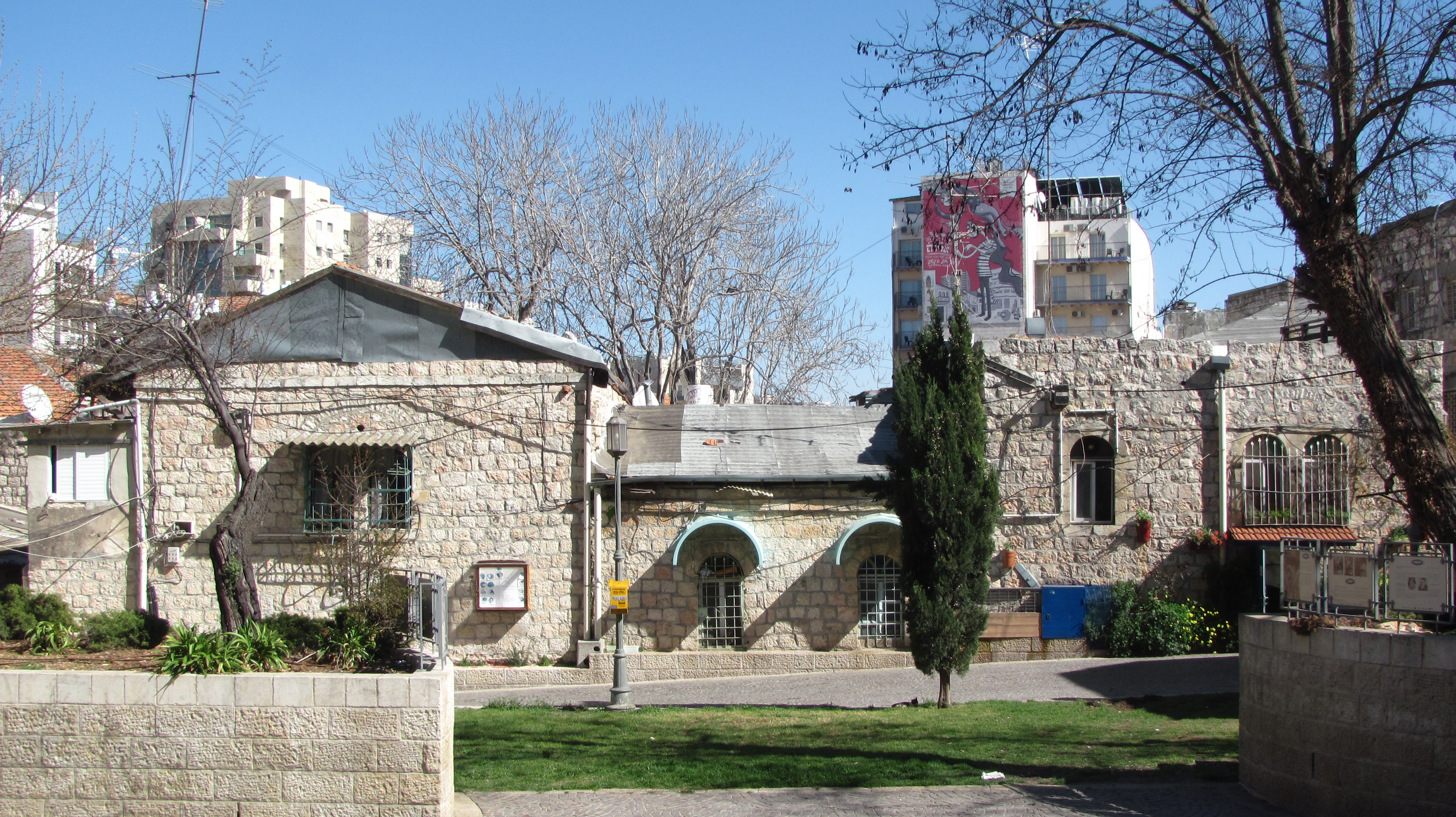 Original row houses in the historical neighborhood of Even Yisrael, Jerusalem, Israel.